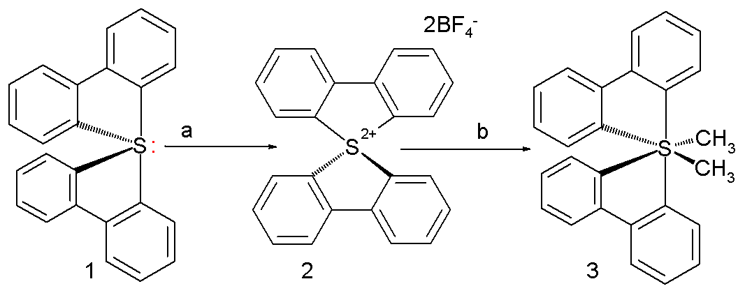 All Carbon Persulfurane